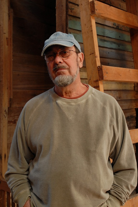 This is a portrait of Robert Mangold the minimalist painter.